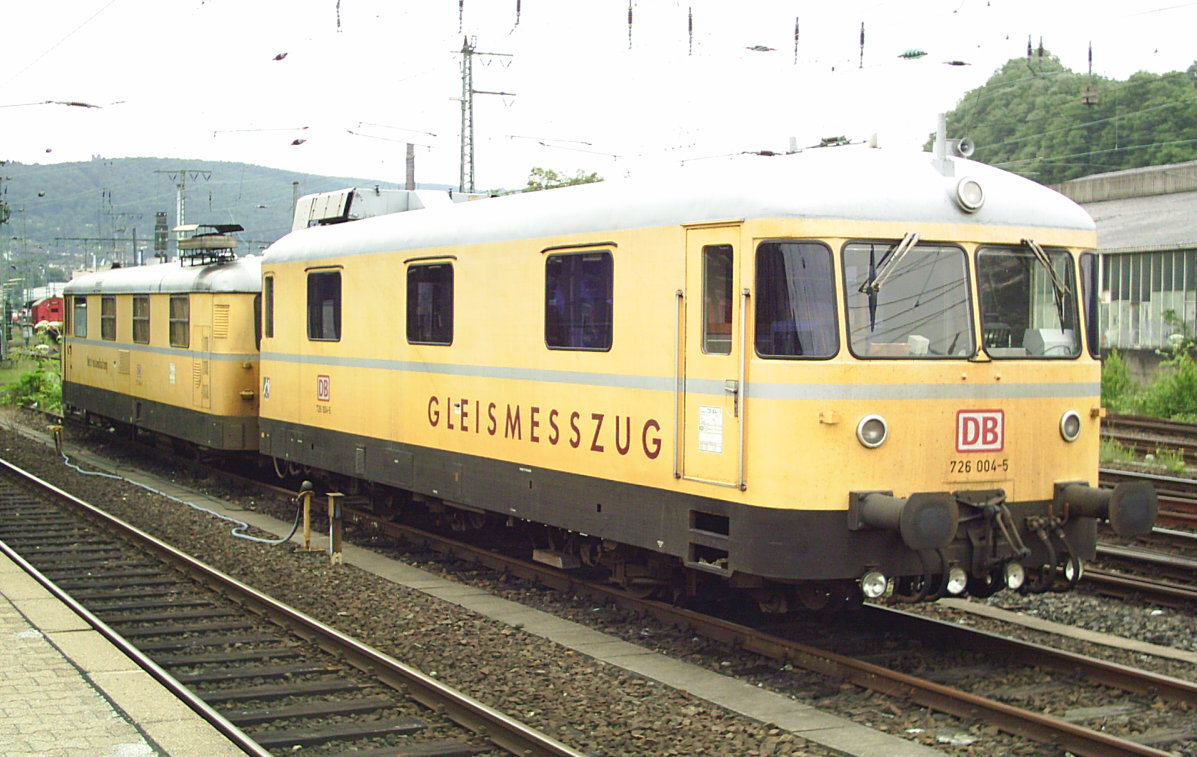 Class 726 check usage